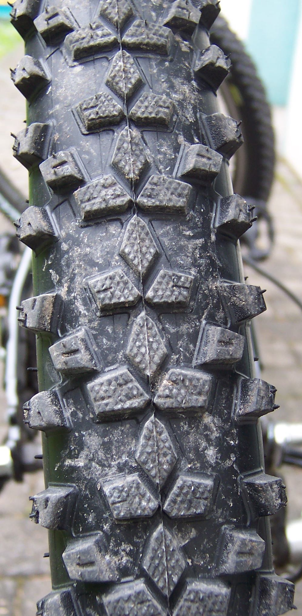 New SmartSam tire.